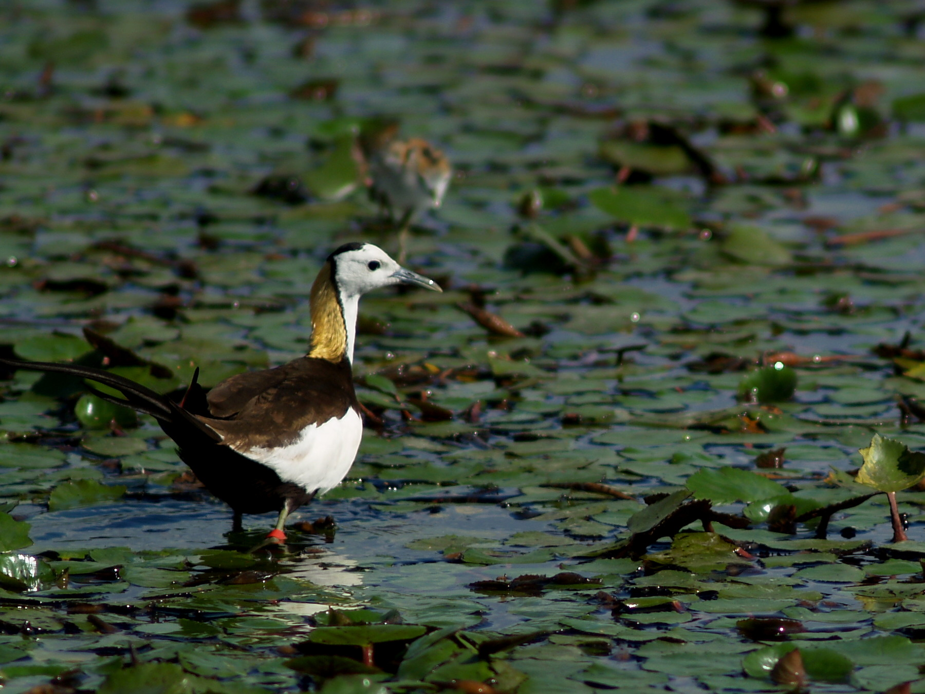 Pheasant-tailed Jacana